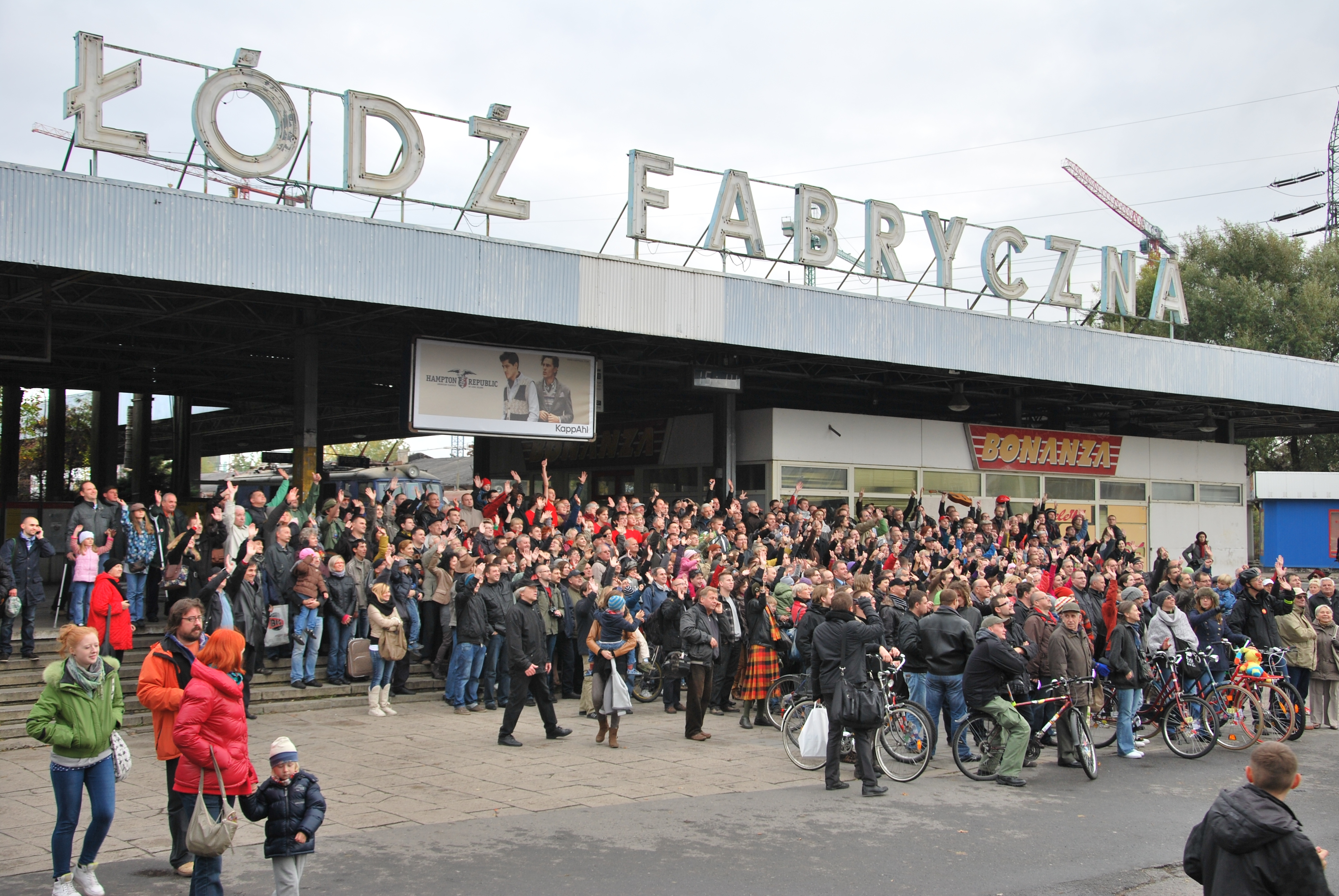 People of Łódź on 'Farewell to Łódź Fabryczna Station', October 2011